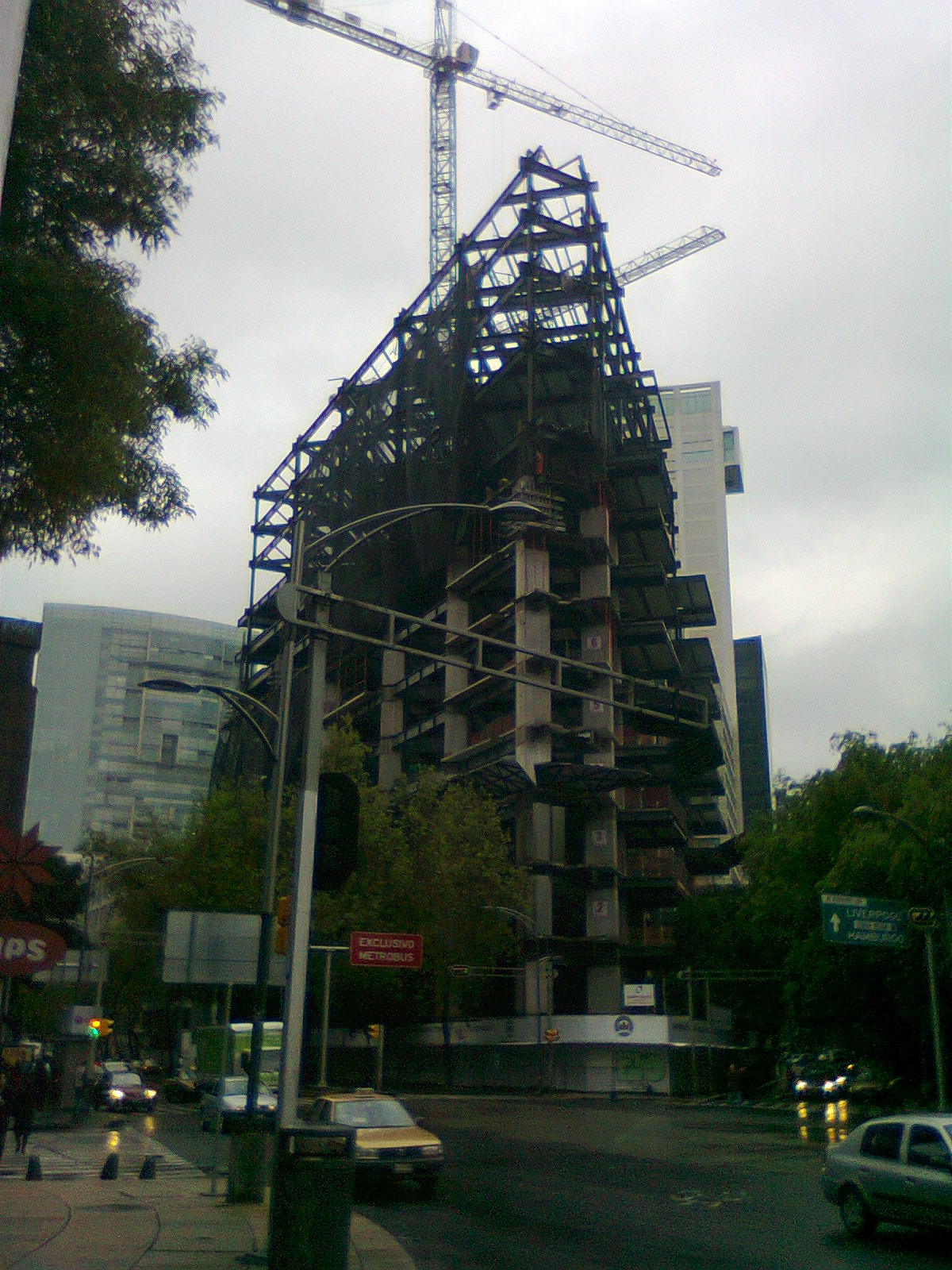 PuntReform